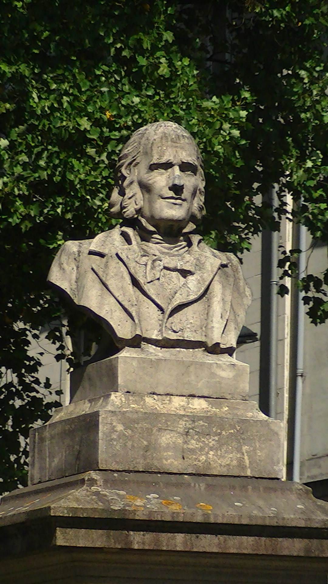 Ange Guépin monument, Place Delorme, Nantes